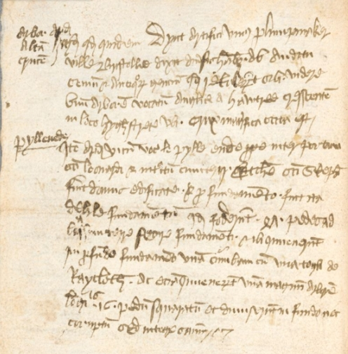 Willelmus Worcestre, Itinerarium (MS. CCCC Parker 210) p. 196 summa